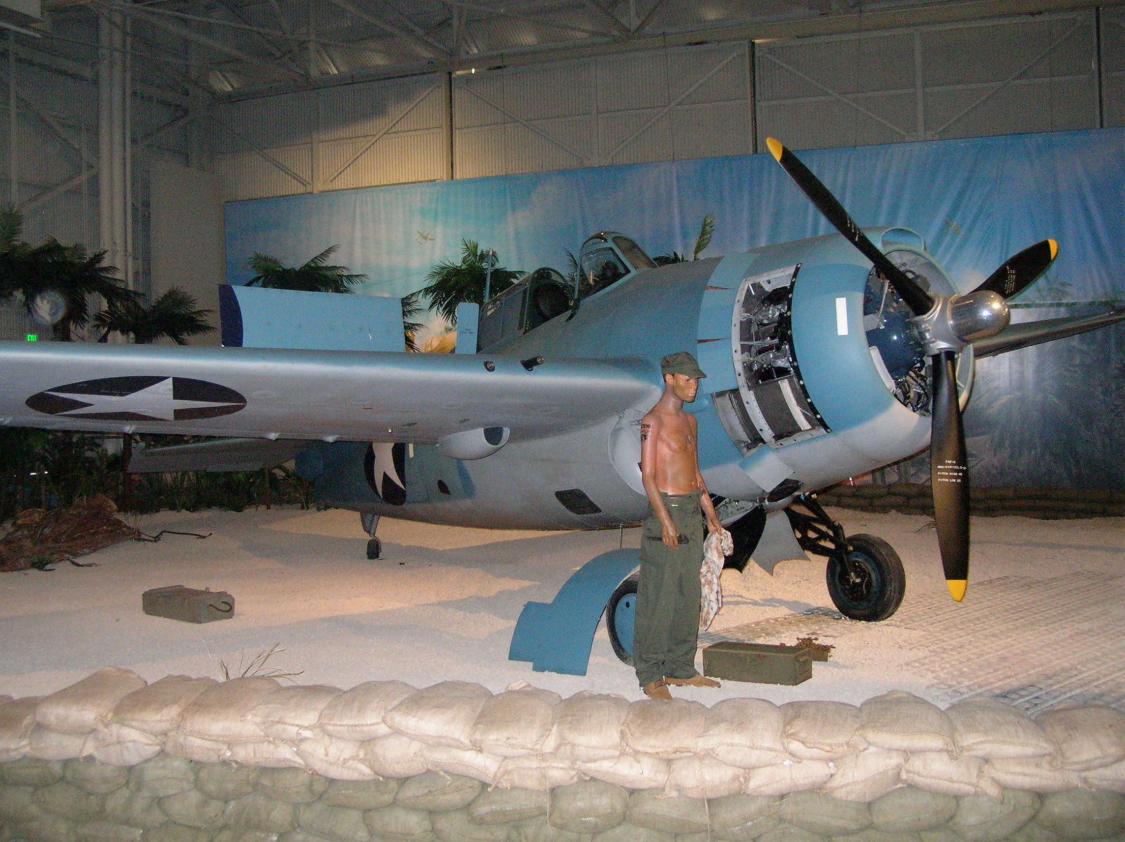 F4F3 Wildcat Fighter